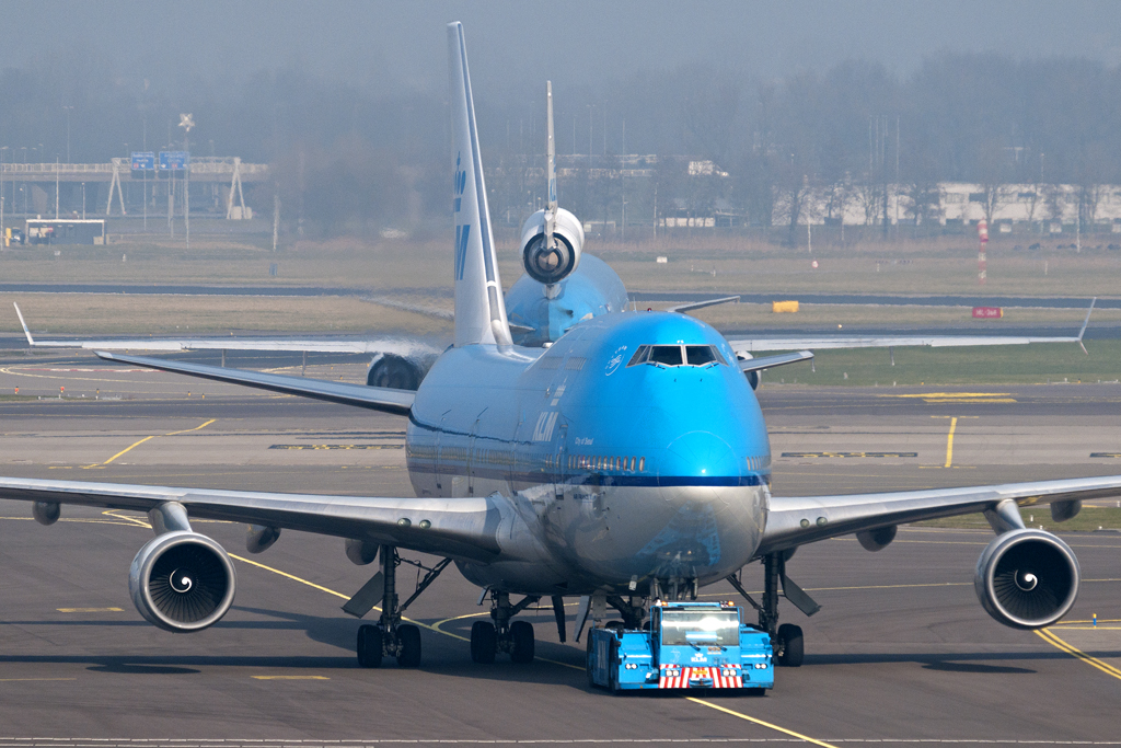 Being towed from the hangar at schiphol East to the pier.